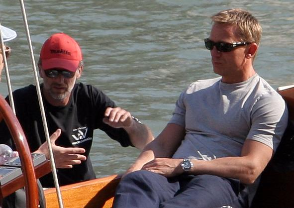 Michael G. Wilson and Daniel Craig on a yacht in Venice during a break in filming Casino Royale.